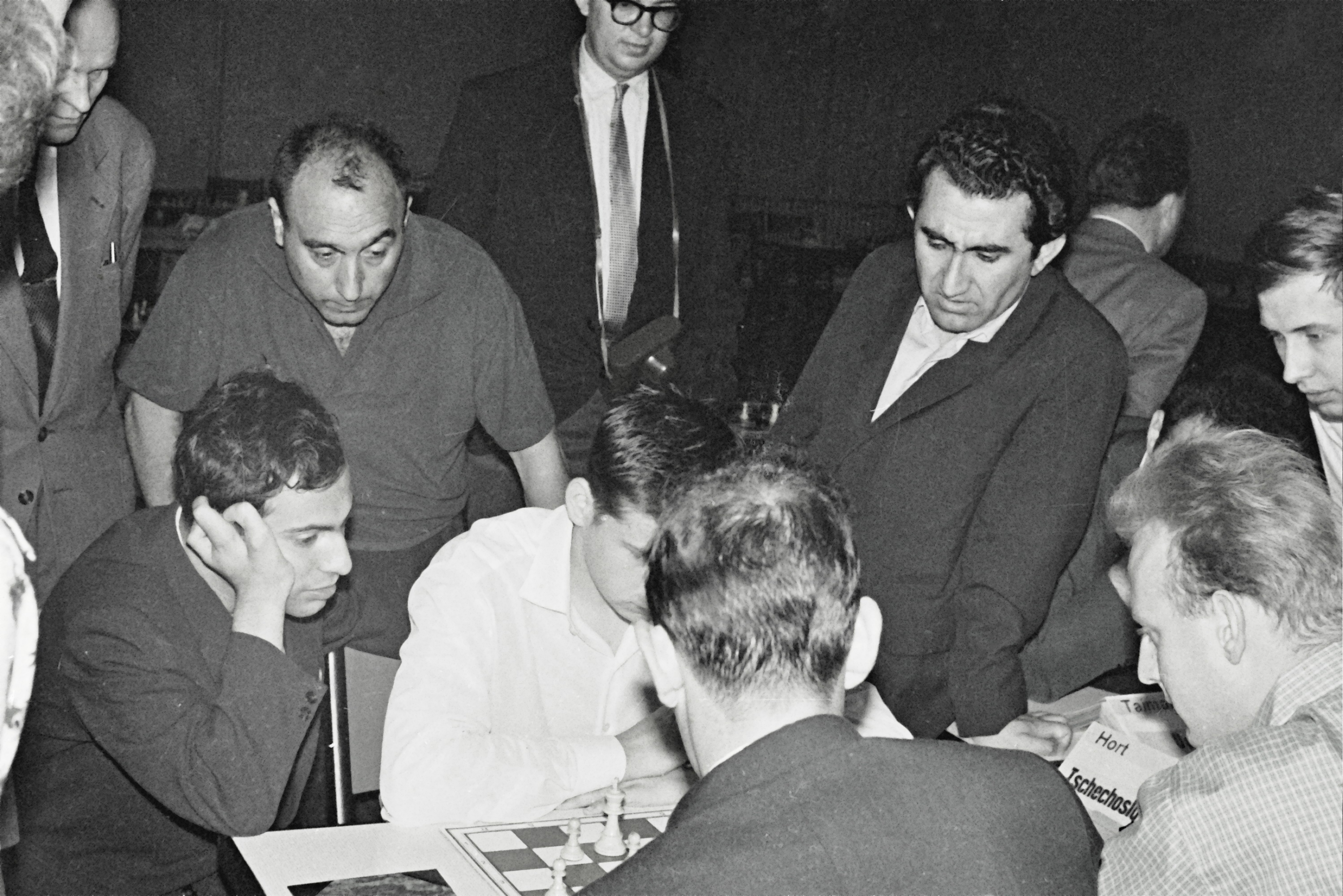 Tal and Petrosjan, European Chess Team Championship 1961 at Oberhausen, Photographer Gerhard Hund.